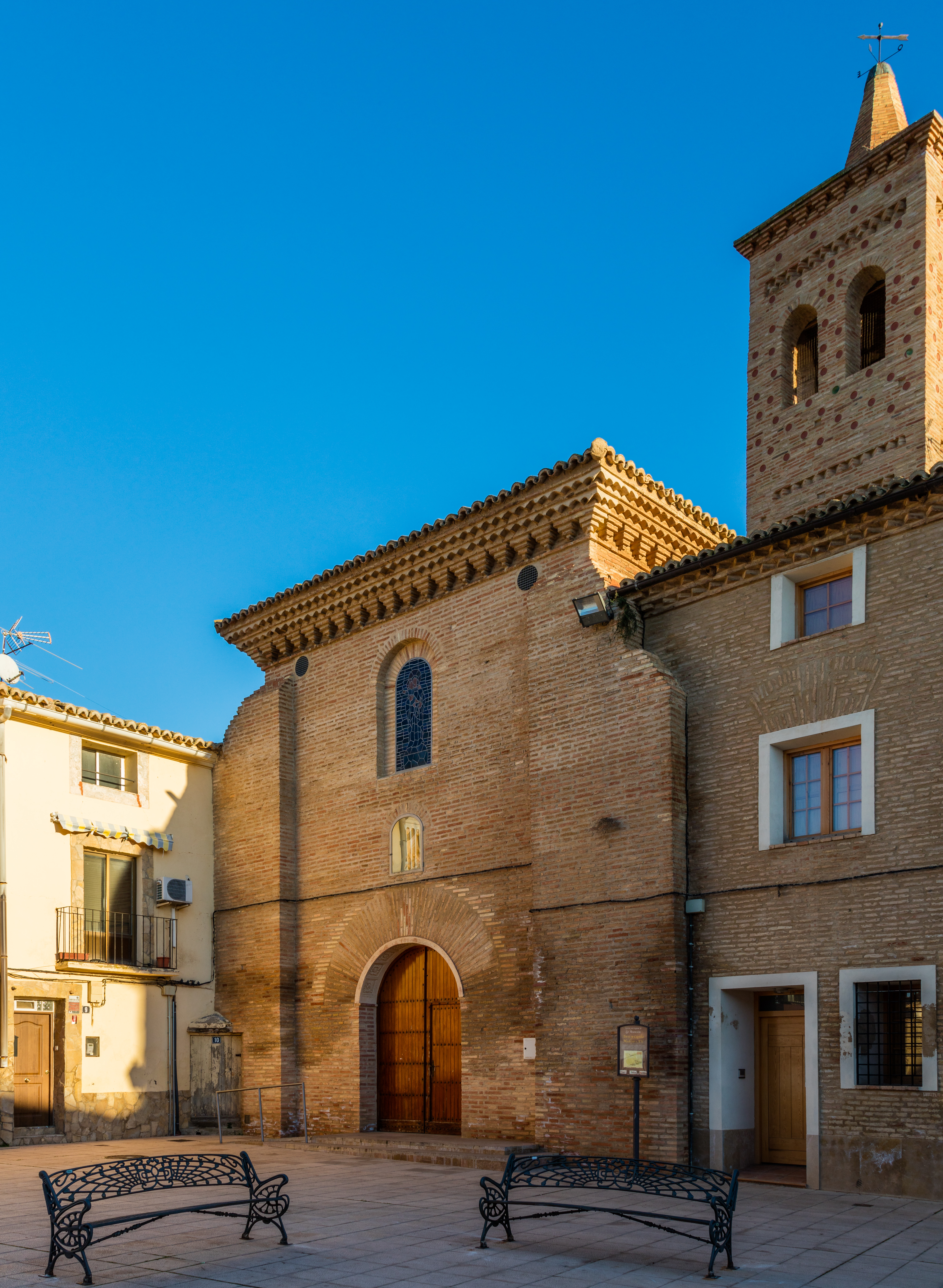 Church of the Assumption of Our Lady, Bárboles, Saragossa, Spain